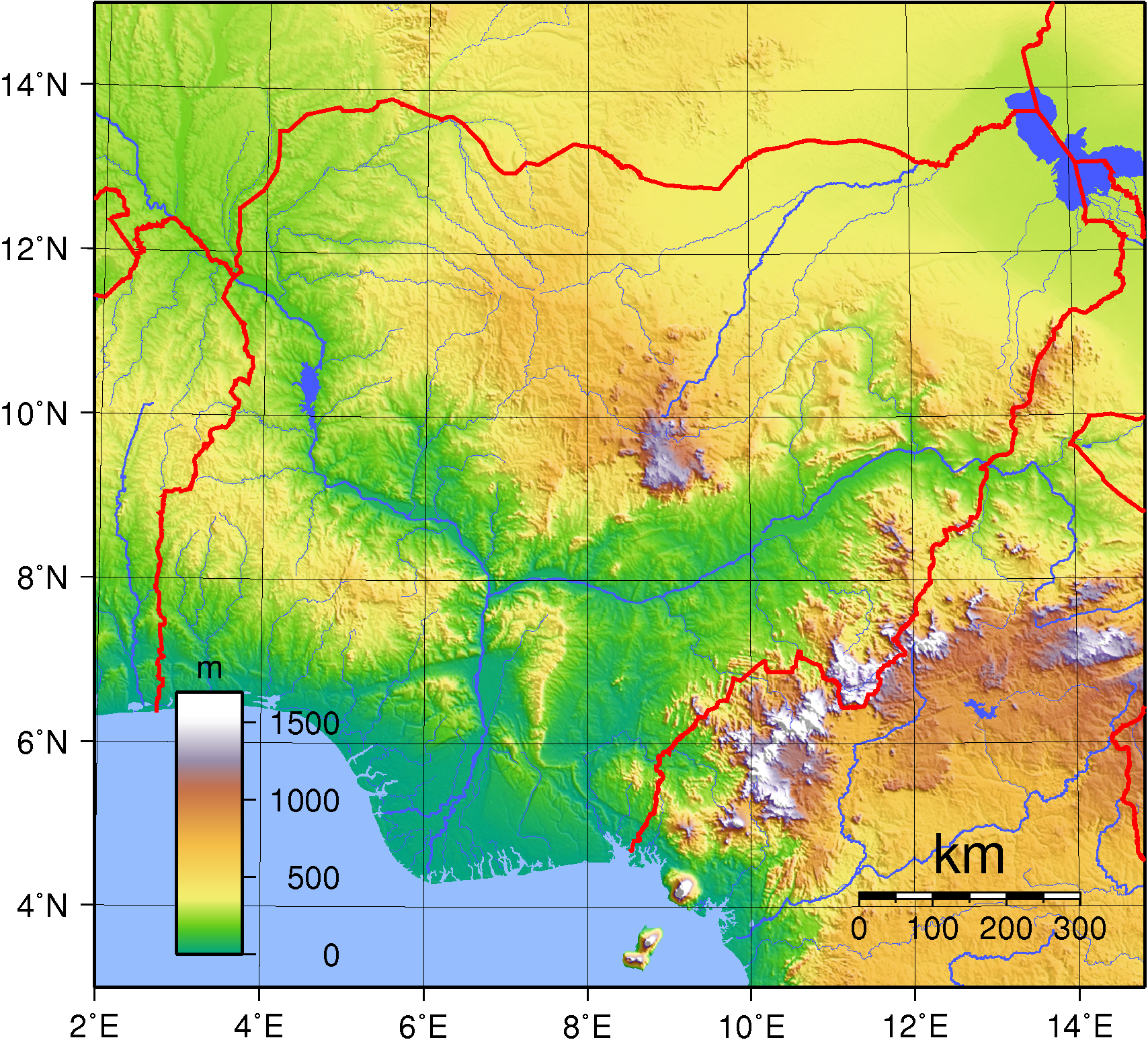 Topographic map of Nigeria. Created with GMT from public domain GLOBE data.